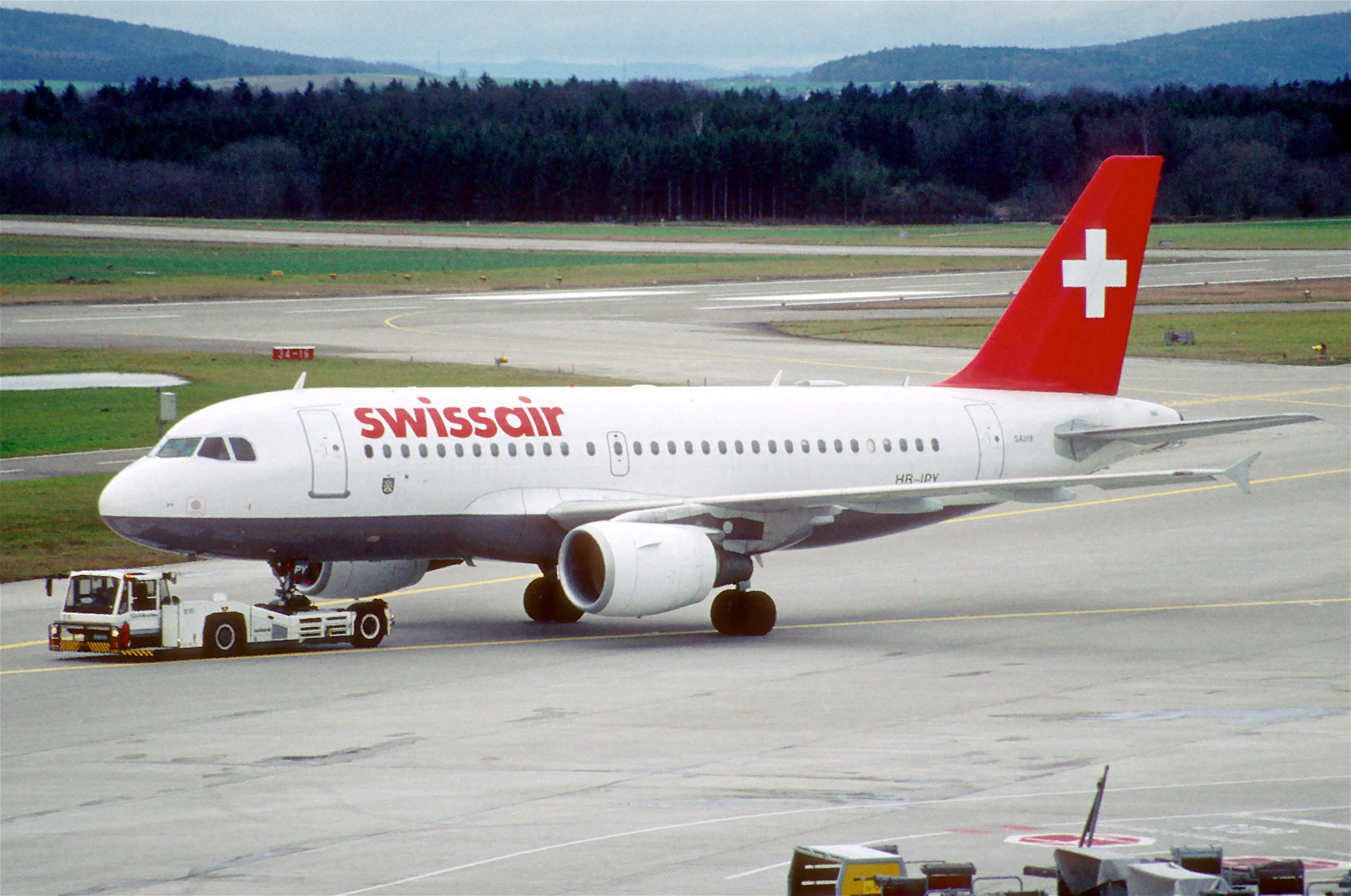 First flight: September 20, 1996...(c/n 621) 18/10/1996 Swissair HB-IPY 31/03/2002 Swiss International Airlines HB-IPY